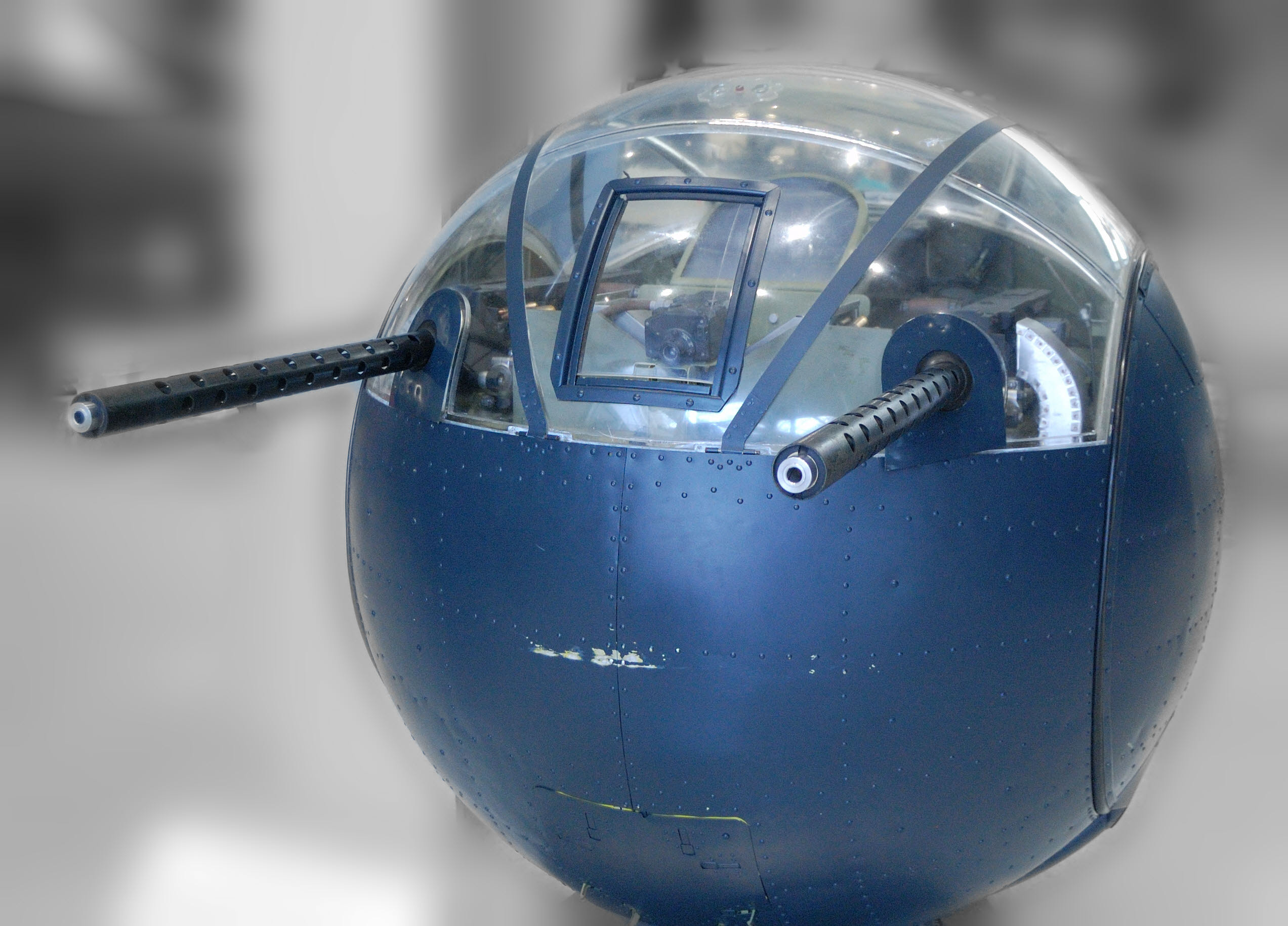 Erco ball turret (National Museum of Naval Aviation, FL).